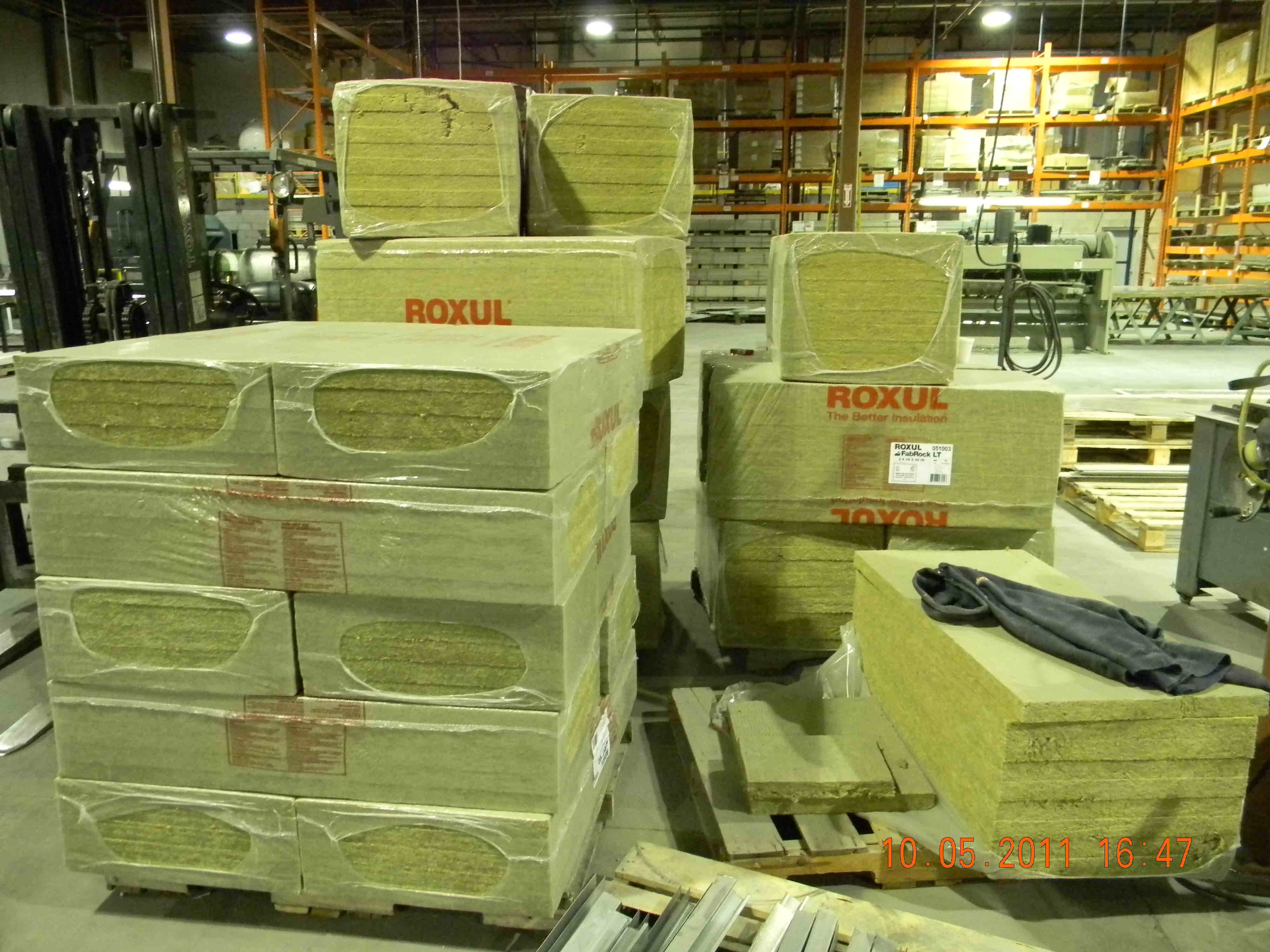 Load of stone wool bundles.